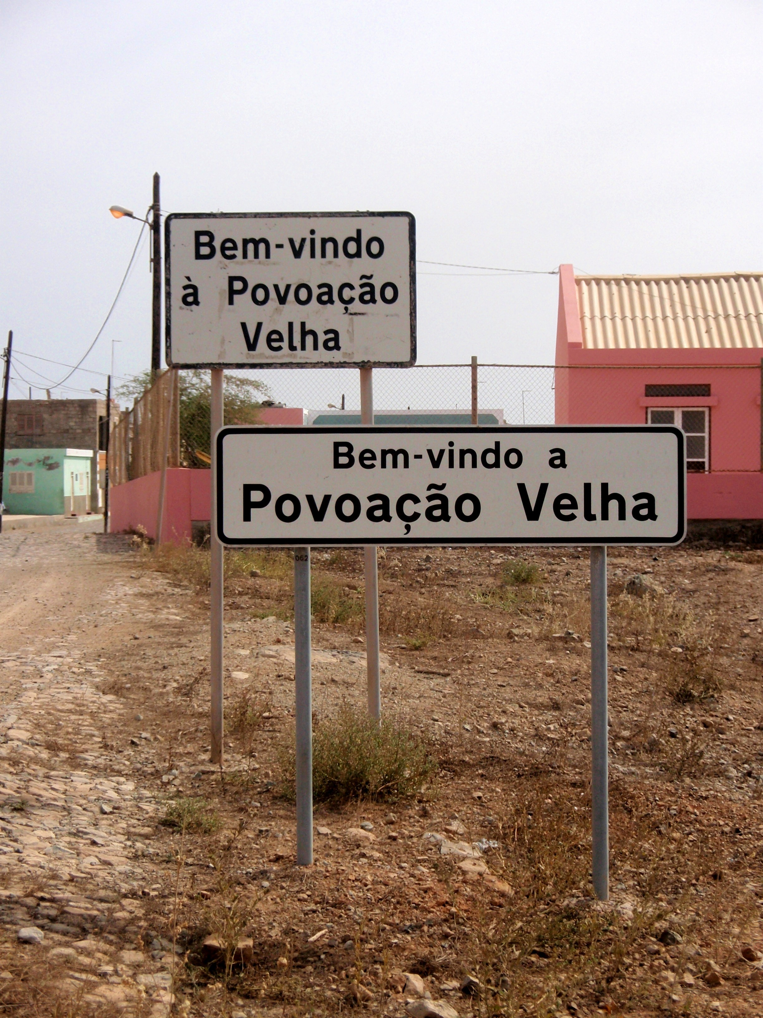 Povoacao Velha, Boa Vista, Cape Verde - welcome sign